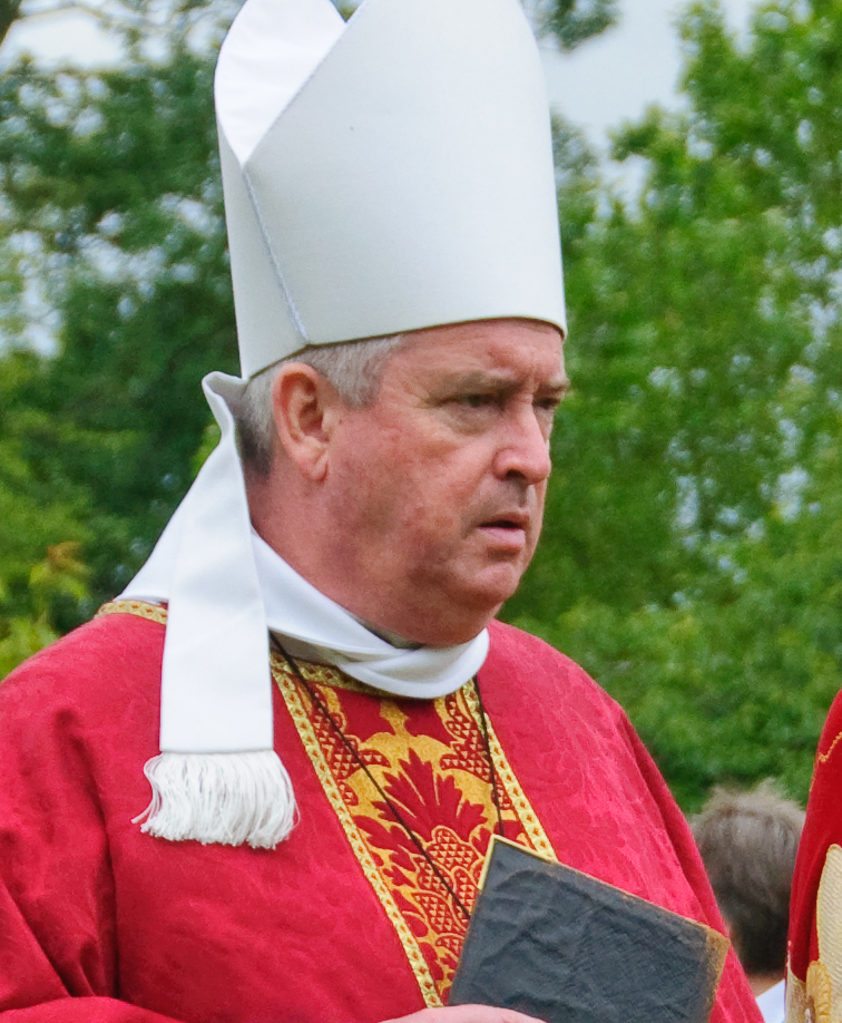 Graeme Knowles, Dean of St Paul's, and Jeffrey John, Dean of St Albans